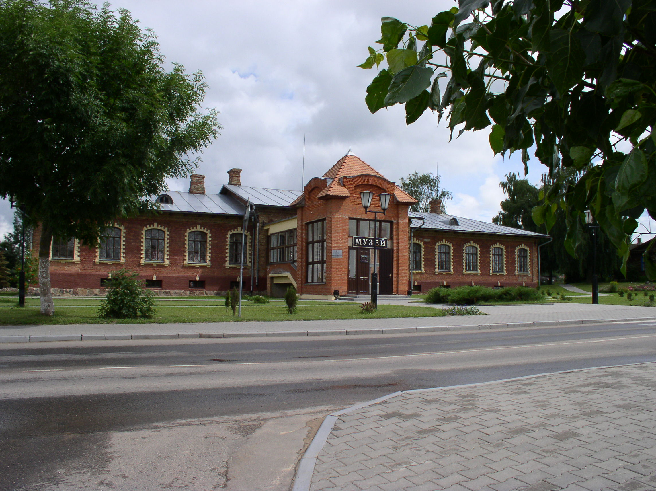 Museum, Niasvizh, Belarus.